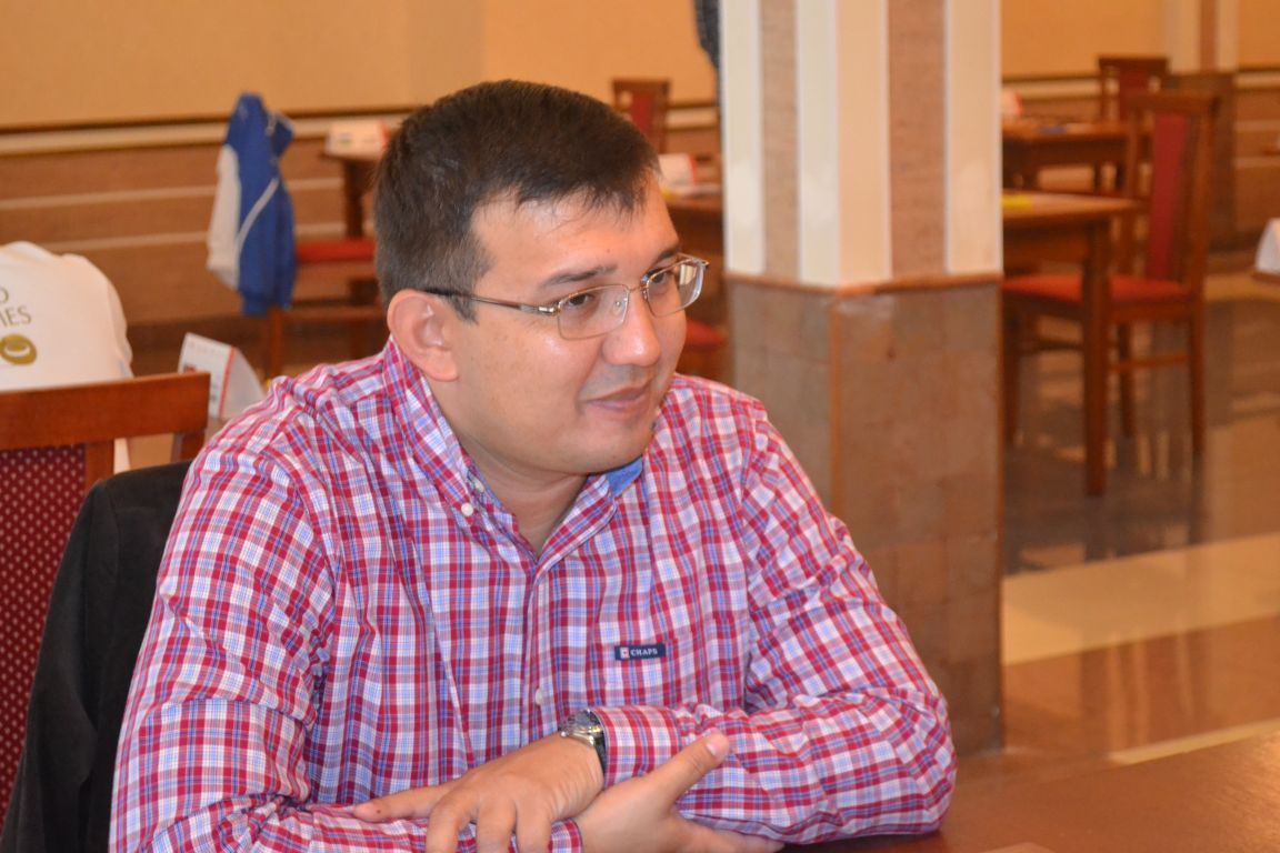 Russian draughtsman Mourodoullo Amrillaew on Championship World of draughts, Ufa, 2013